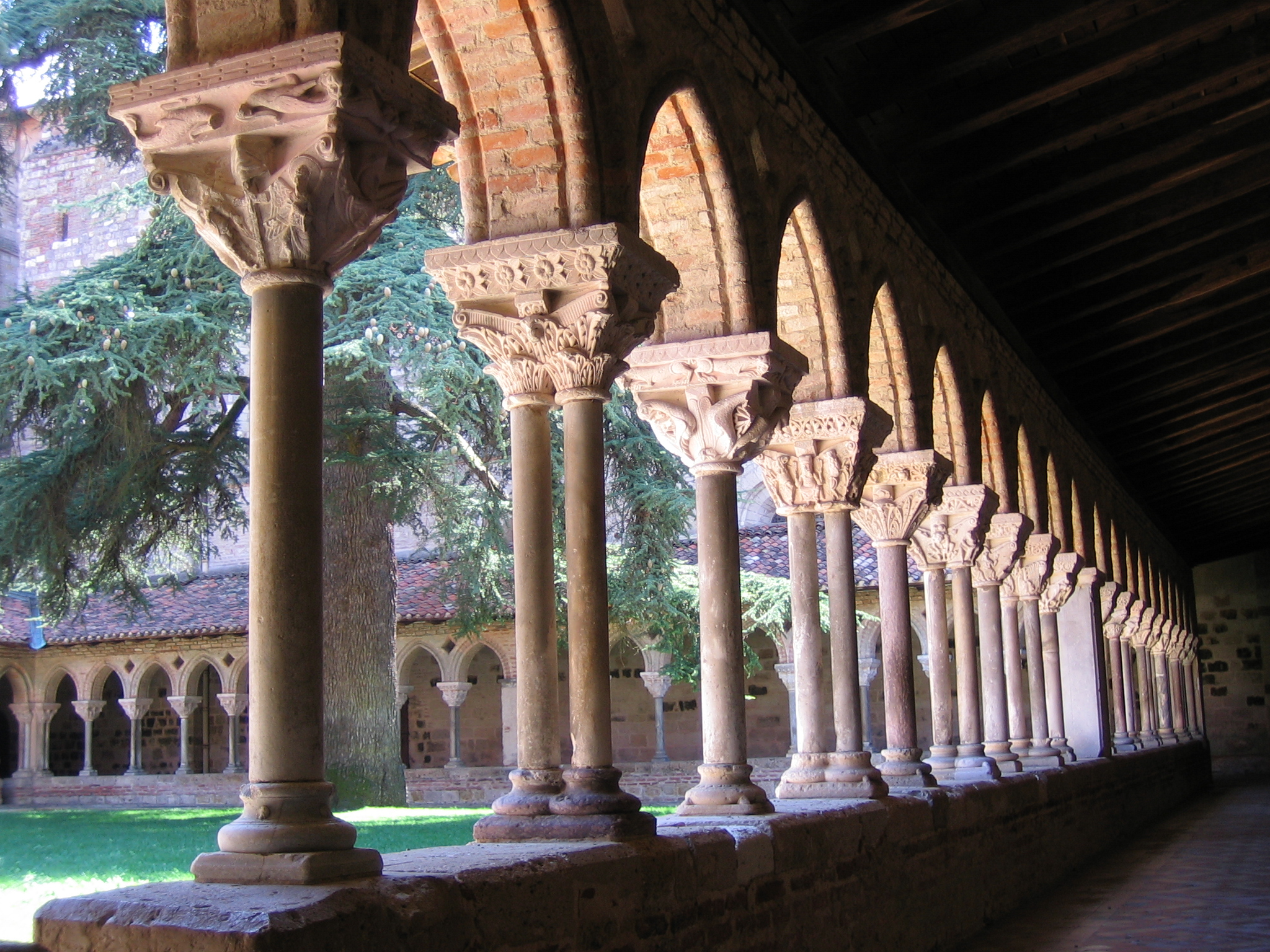 Moissac, Cloisters of Moissac Abbey, detail